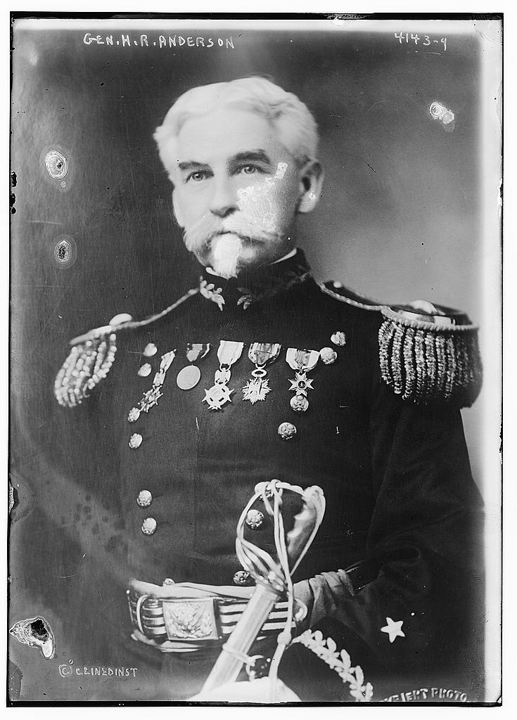 Harry Reuben Anderson circa 1918